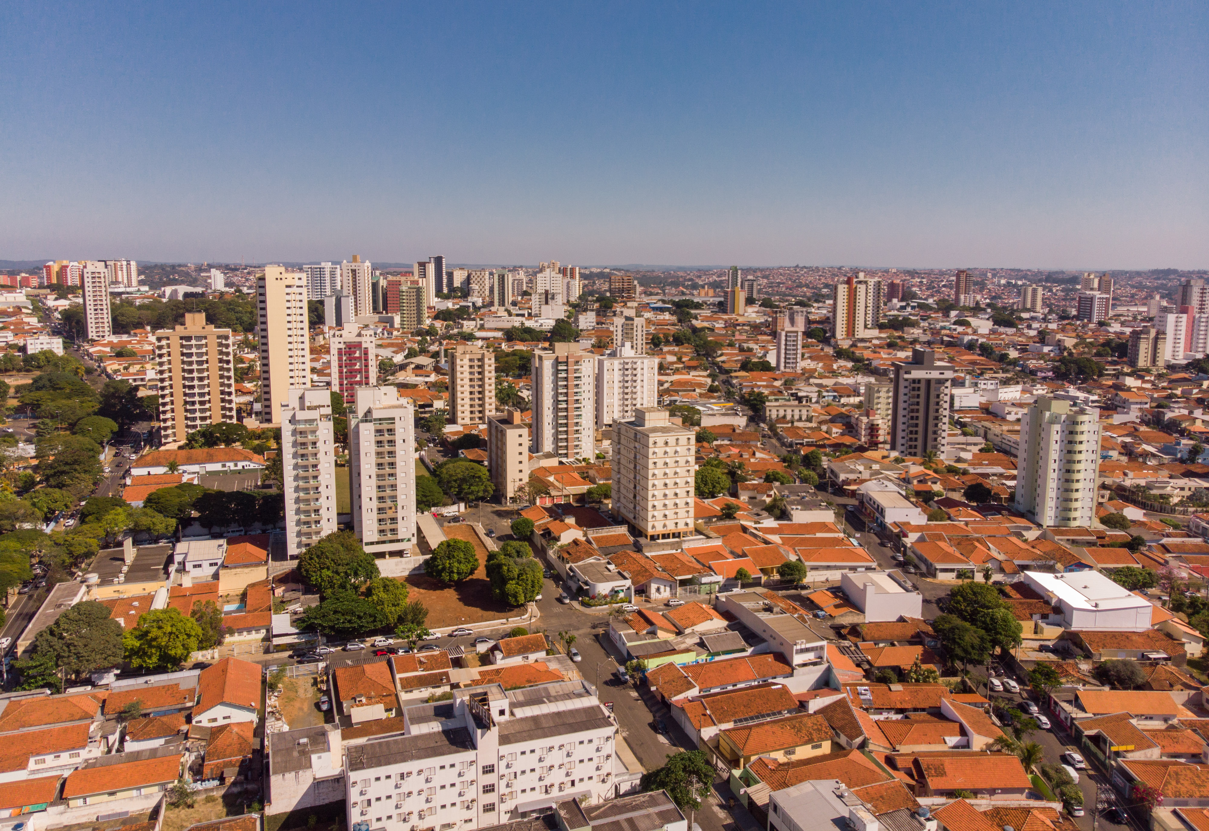 O governador Márcio França, assina Certificados dos MIT's de: Mineiros do Tietê e Piratininga + Assinatura de Convênios DADE para o Municípios de: Barra Bonita e Igaraçu do Tietê e Lins. Local: Bauru/SP Data: 19/06/2018. Foto: Governo do Estado de São Paulo